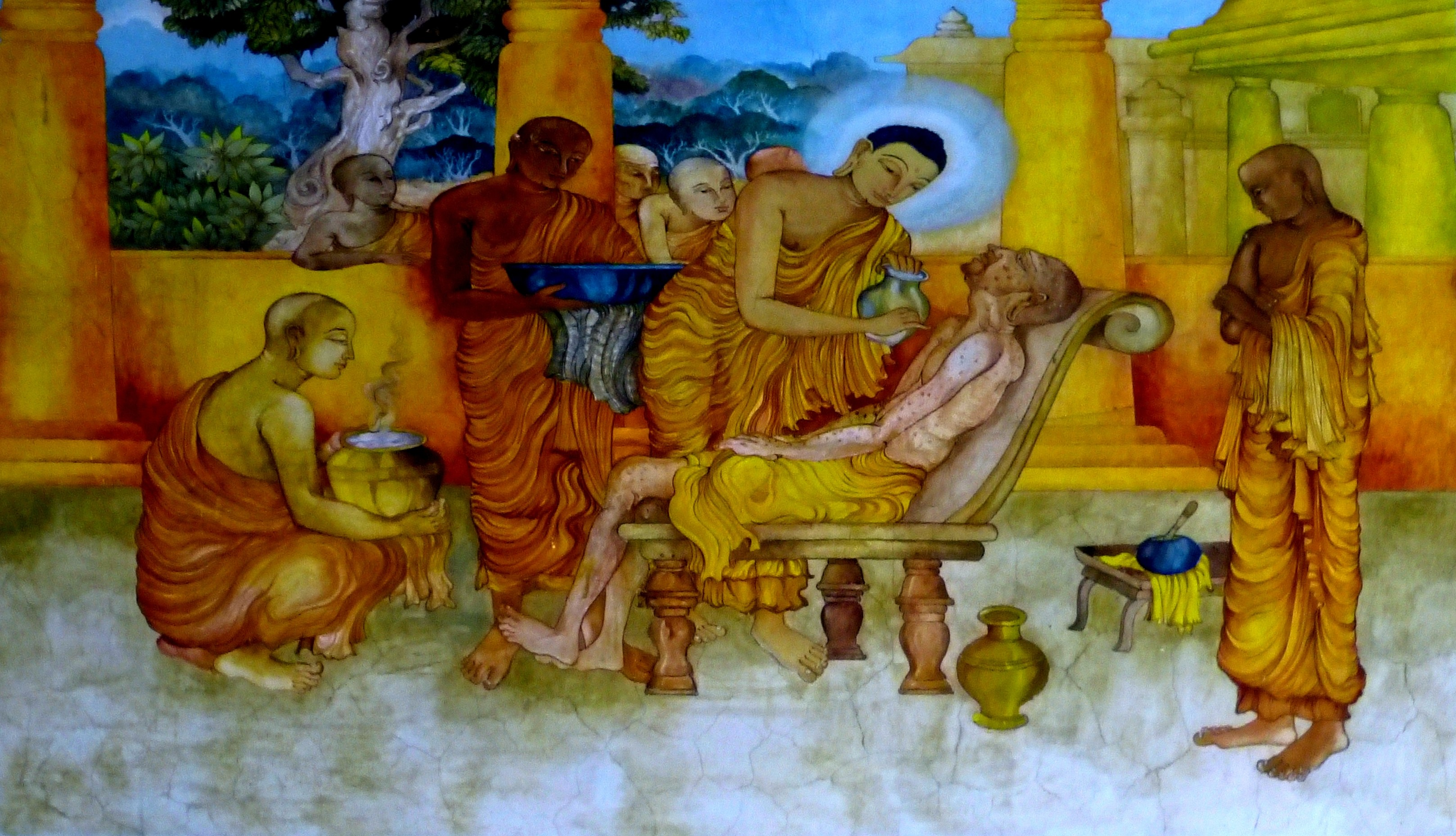 11 The Buddha and Ananda tend a Sick Monk, at the Nava Jetavana, Shravasti Photograph of murals in the Nava Jetavana temple, Jetavana Park, Shravasti, Uttar Pradesh, taken by Anandajoti.